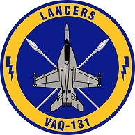 The shoulder patch worn by Lancer aircrew